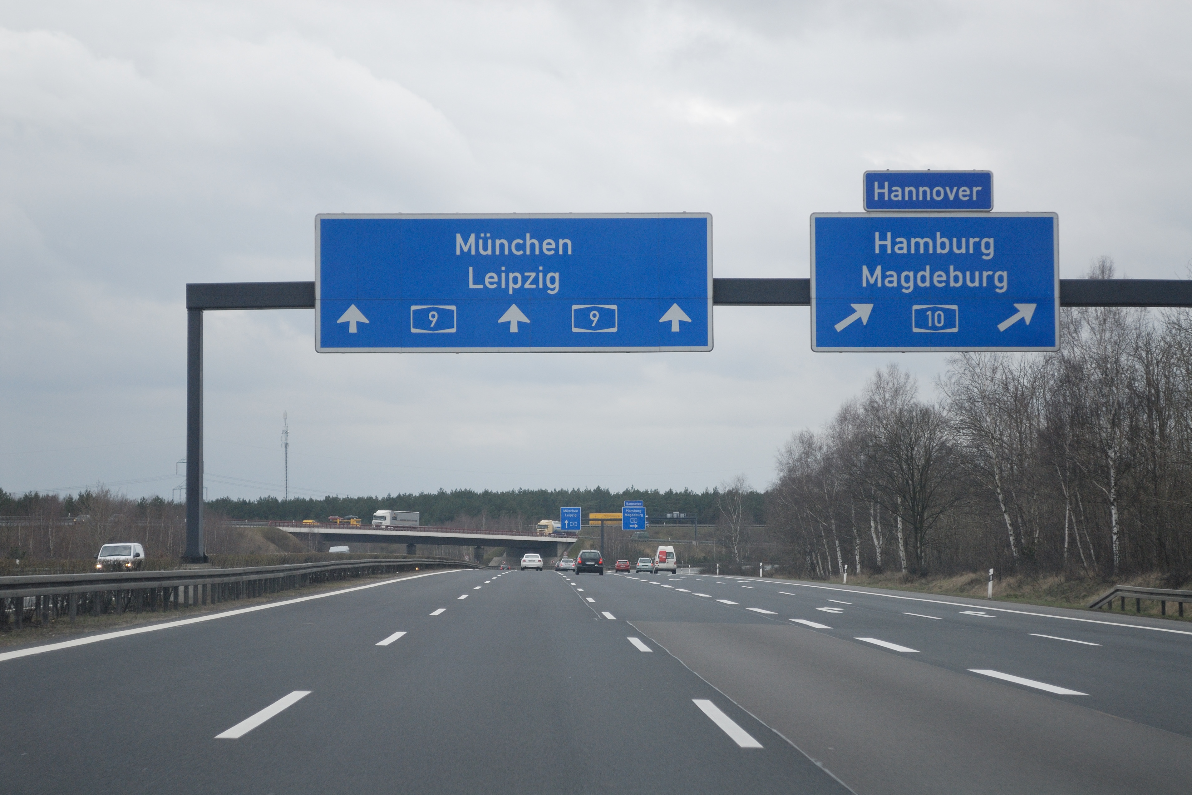 Potsdam interchange. Road shot from A 10 looking west.